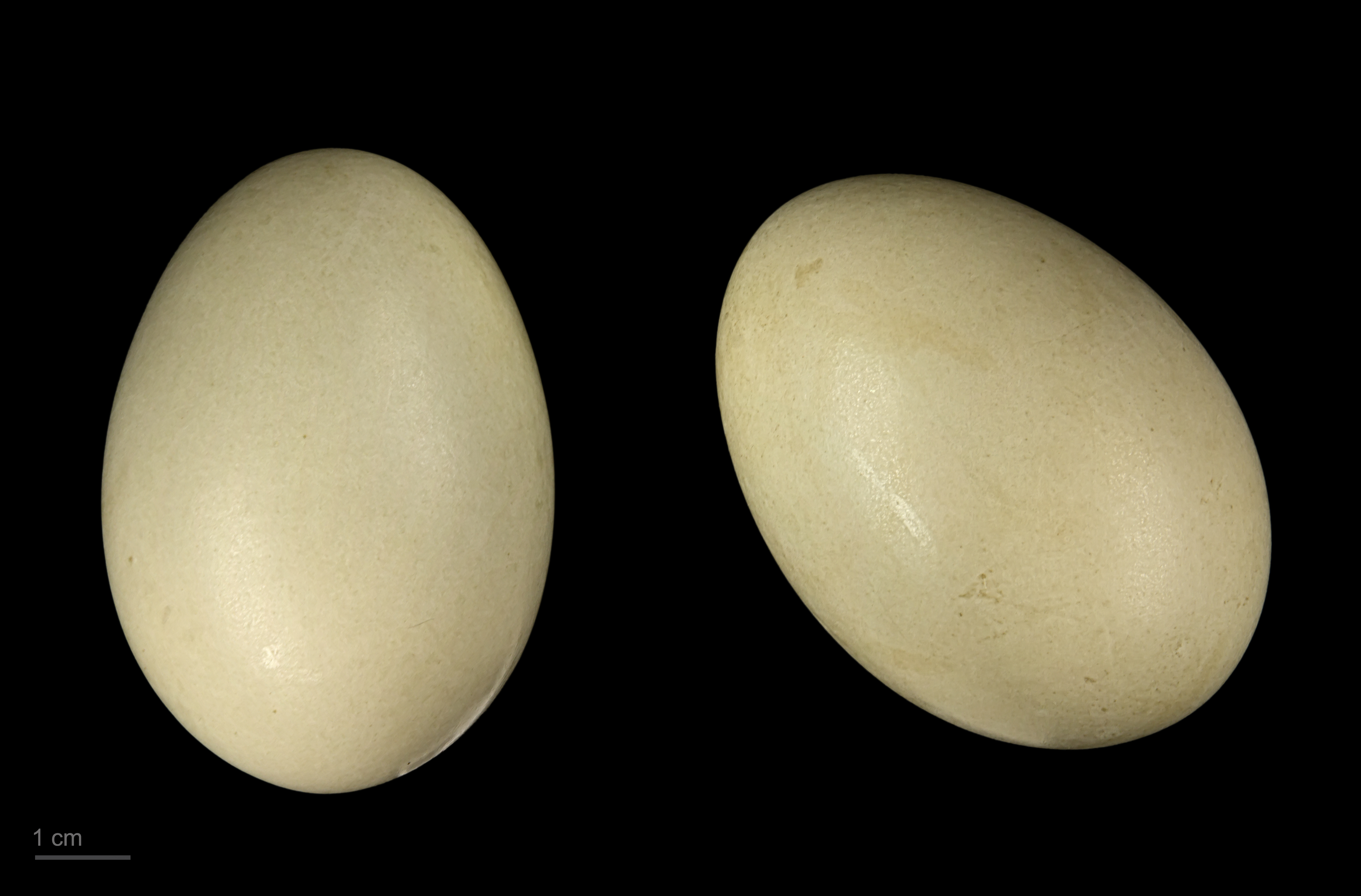 Eggs of common pochard Two specimens of the same spawn ; collection of Jacques Perrin de Brichambaut.